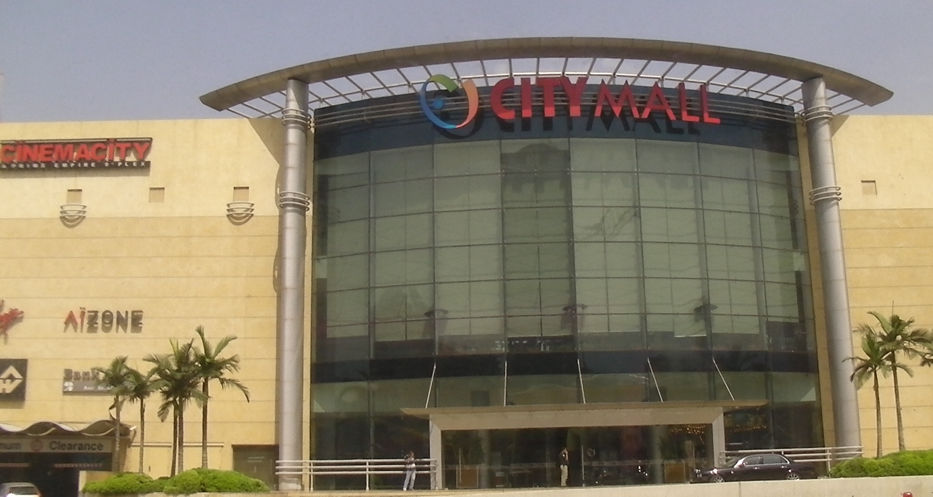 South centrance of City Mall in Beirut, Lebanon. The mall is also home to Cinemacity Beirut, a 9 screen multiplex which opened in 2006.